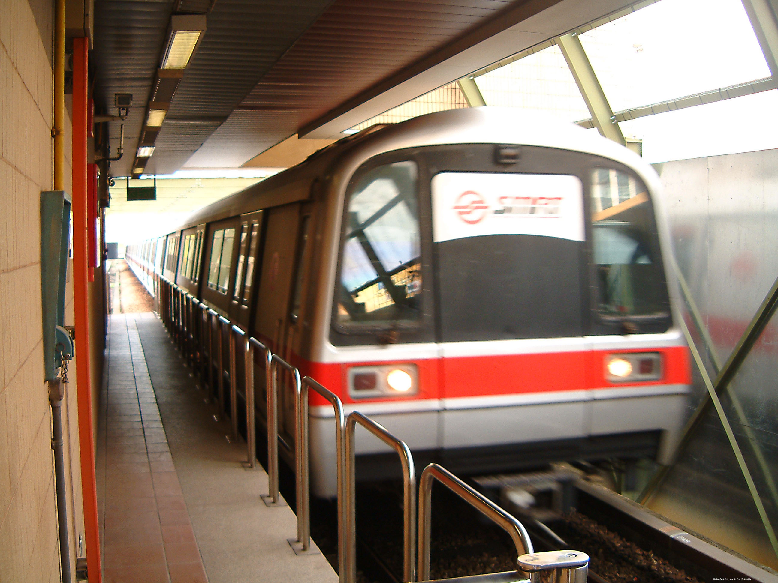 A Kawasaki Heavy Industries pre-RefurbishedC151 train approaching Bishan MRT station at high speed. Created/Taken by Calvin Teo November 2003